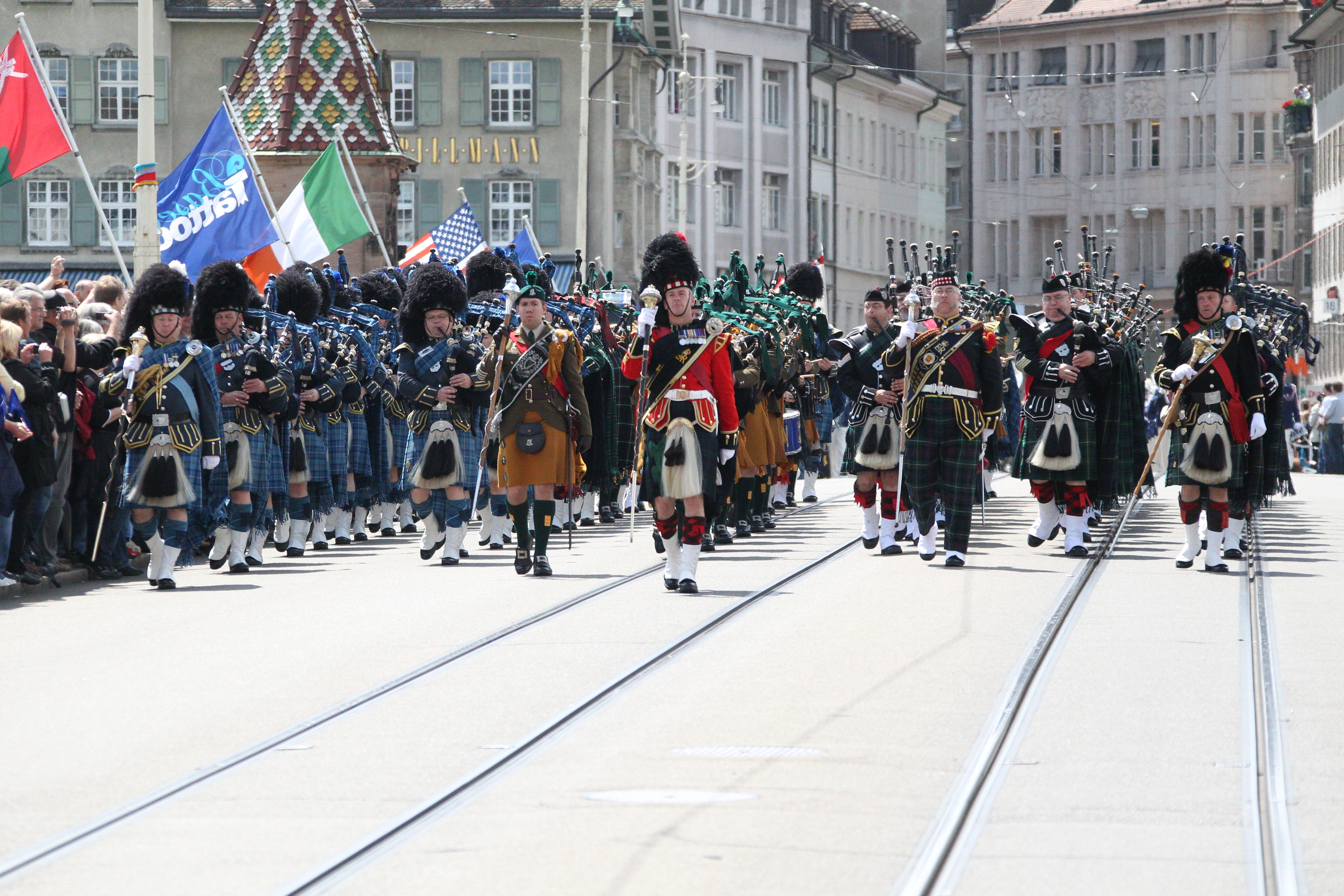 Basel Tattoo Parade 2010